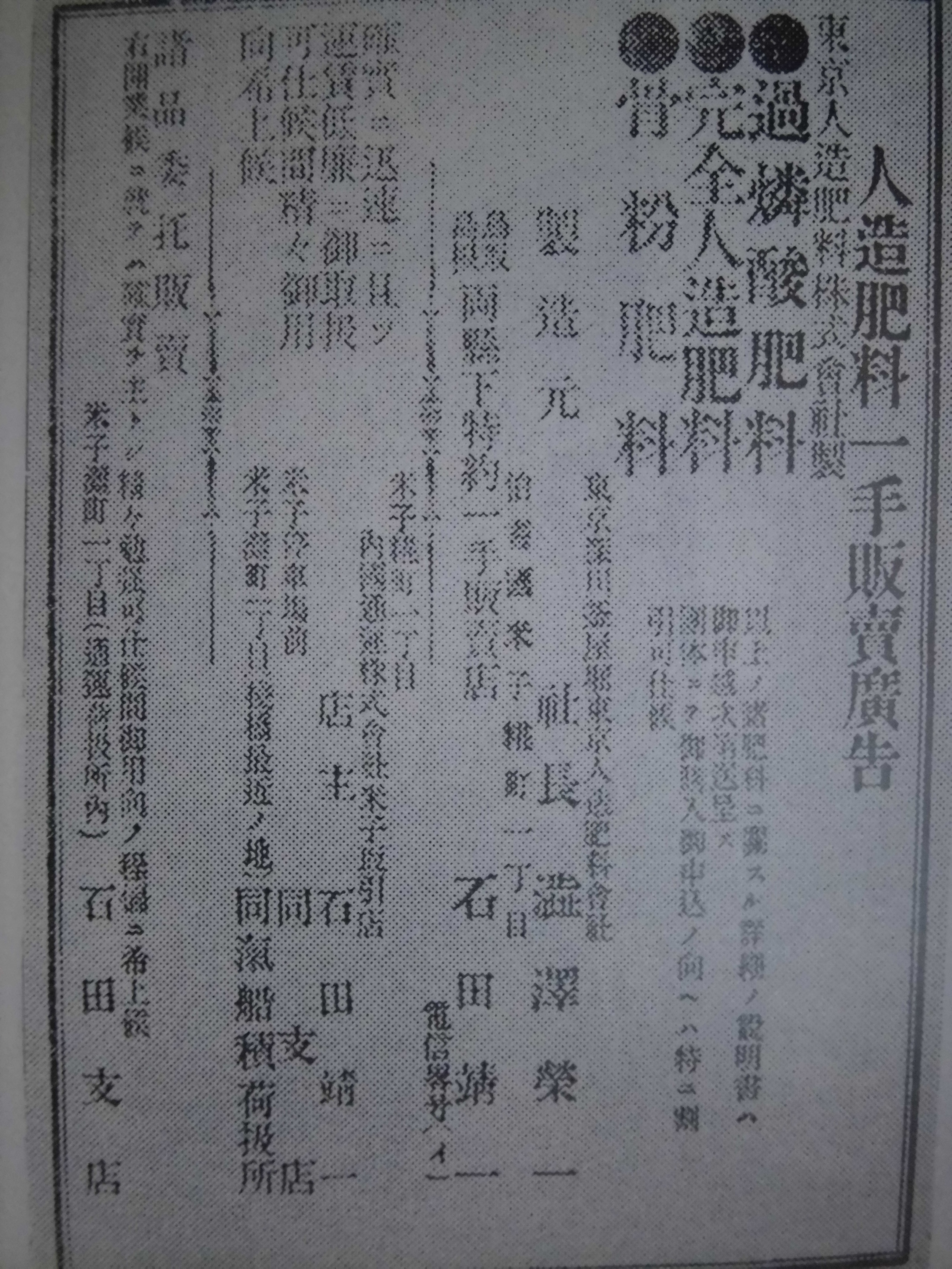 石田商店（Ishida Store）